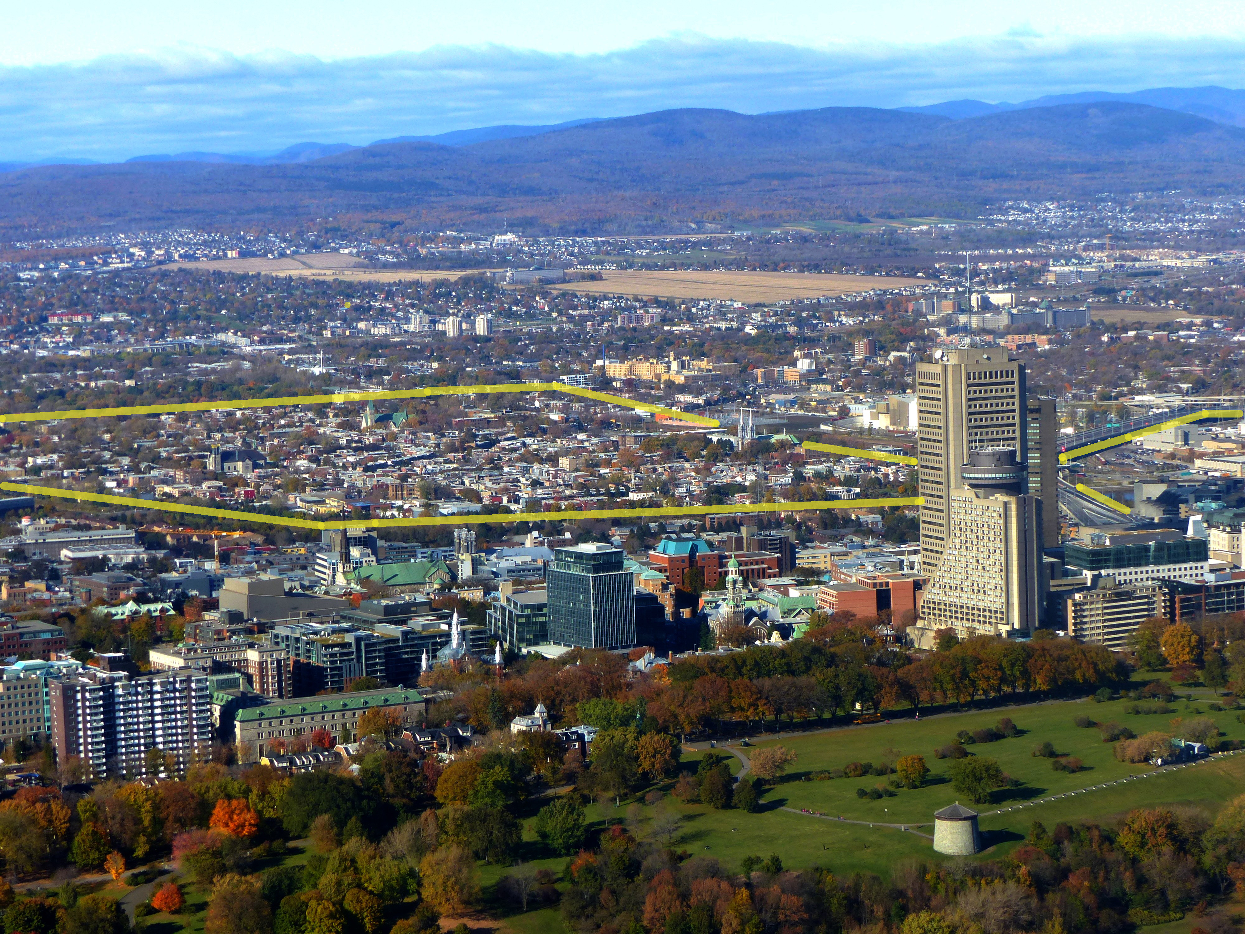 This is an adaptation of another picture on Commons that represents the approximative limits of the district of Vieux-Limoilou, Quebec City, as seen from the air.